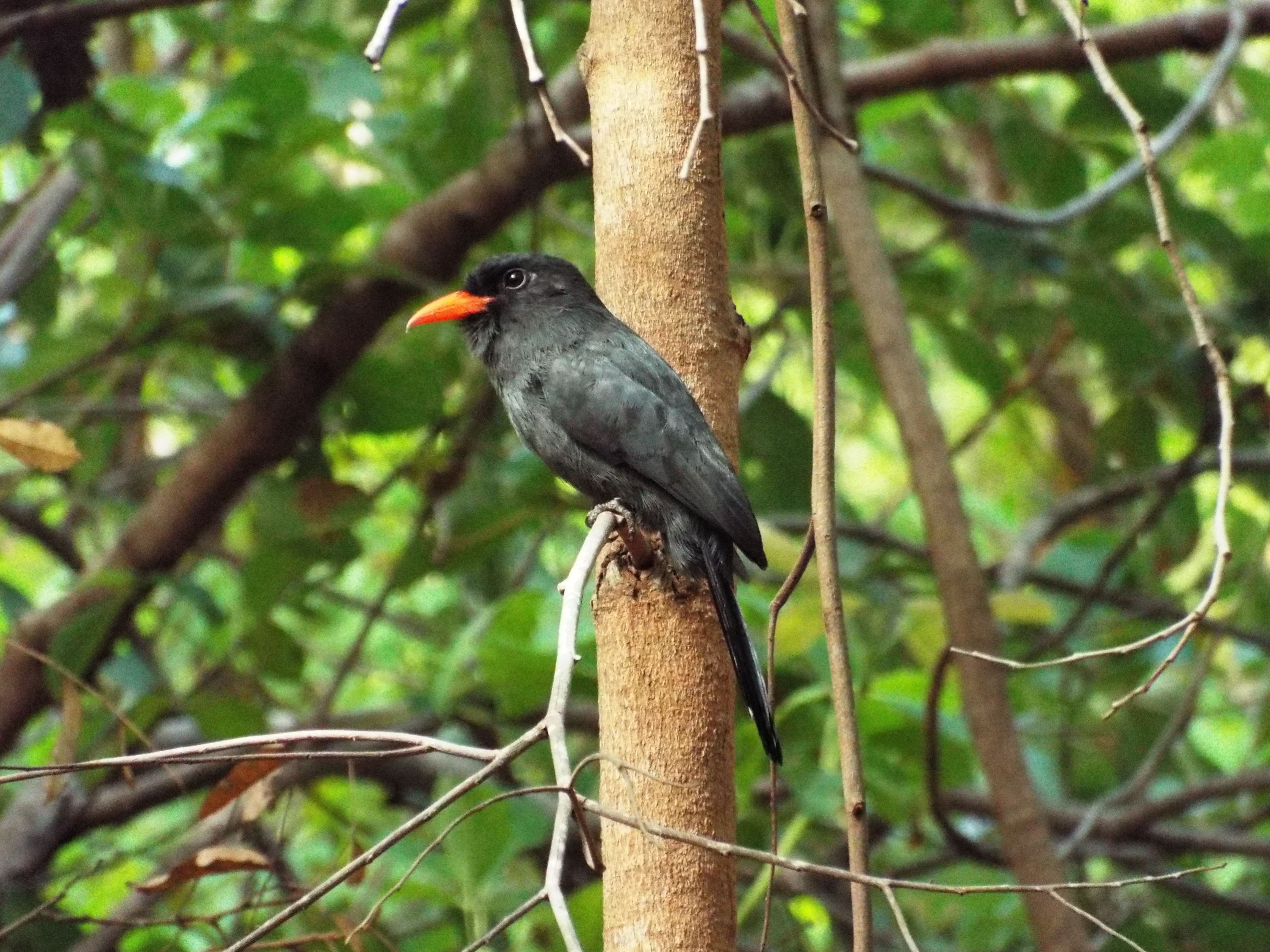 Ave comum de matas e florestas.